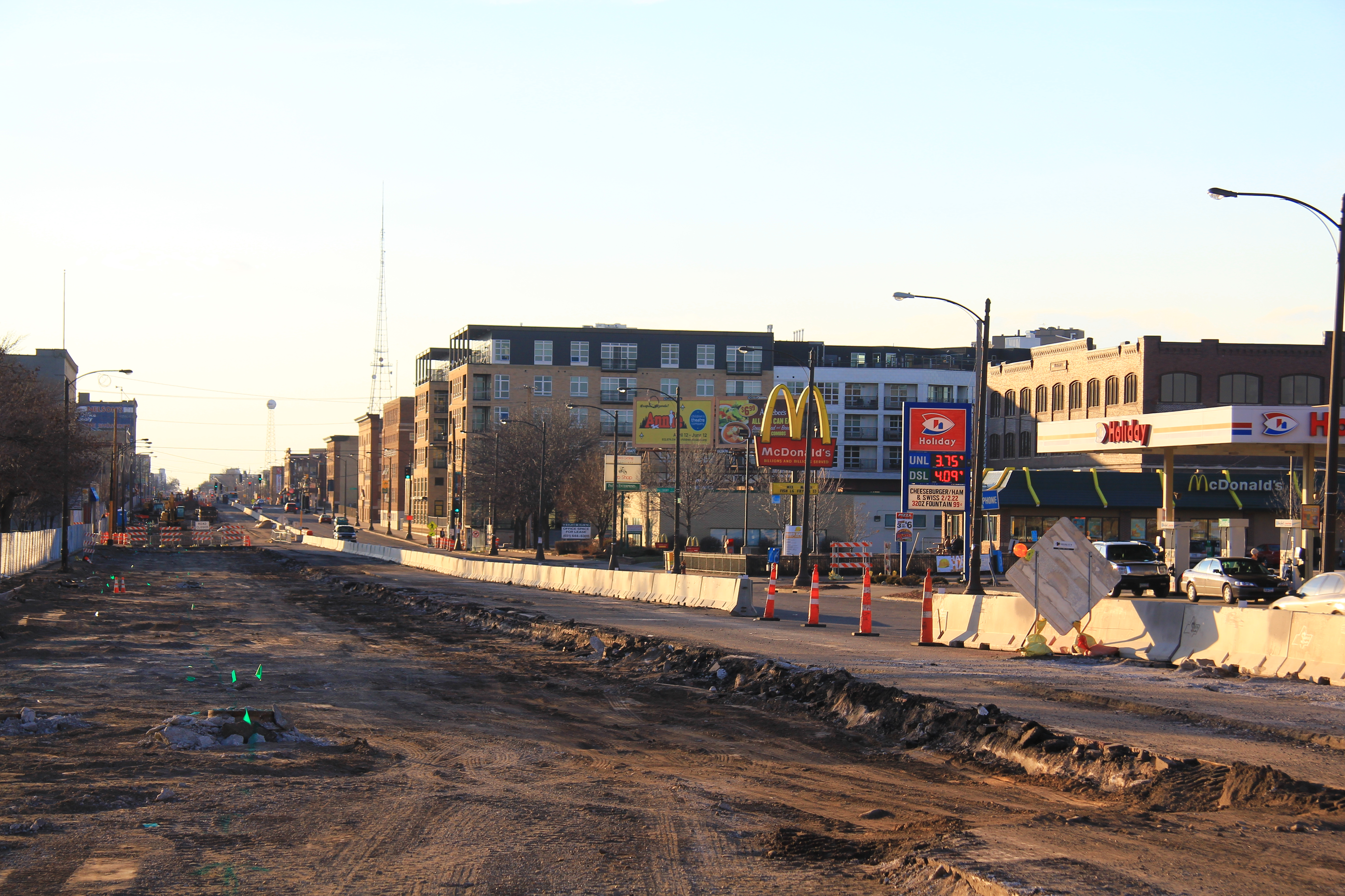 Looking westward along University Avenue to the extent of demolition in preparation for building the Central Corridor light-rail line. The old streetcar right-of-way is partly exposed.